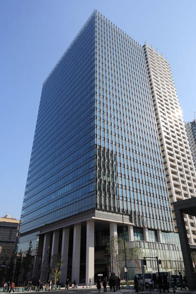 Meguro Central Square Building